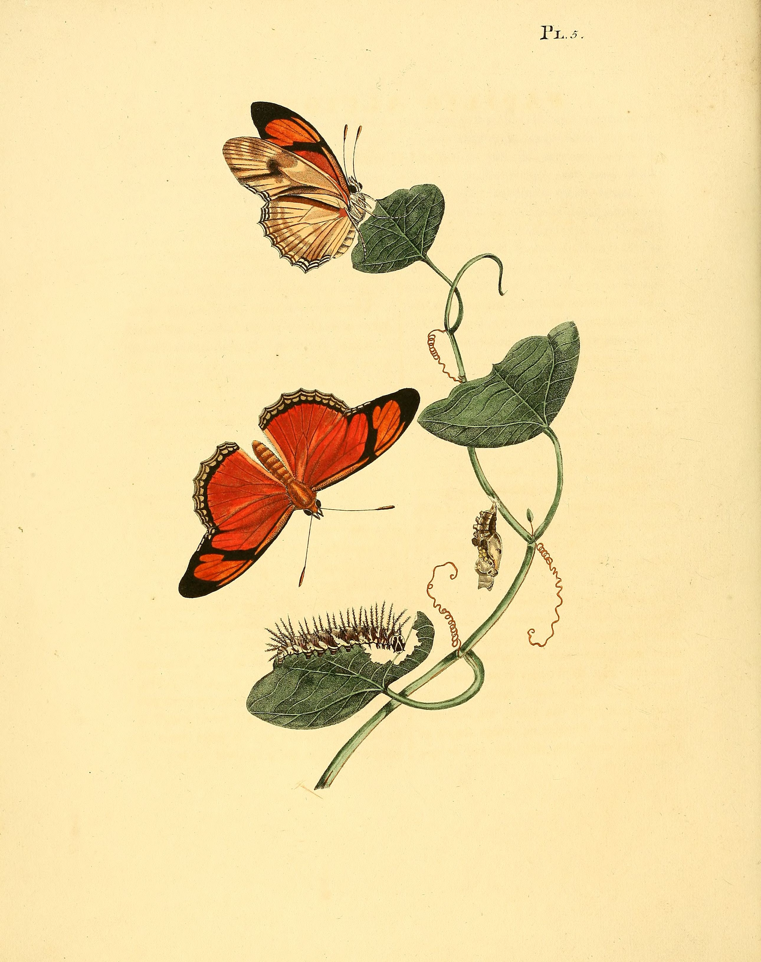 Illustration of: Dryas iulia (as syn. Papilio alcionea)